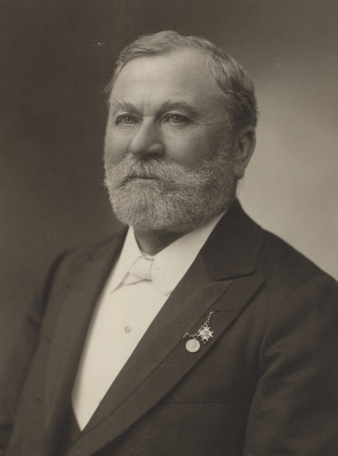 Portrait of Jakob Stabernak